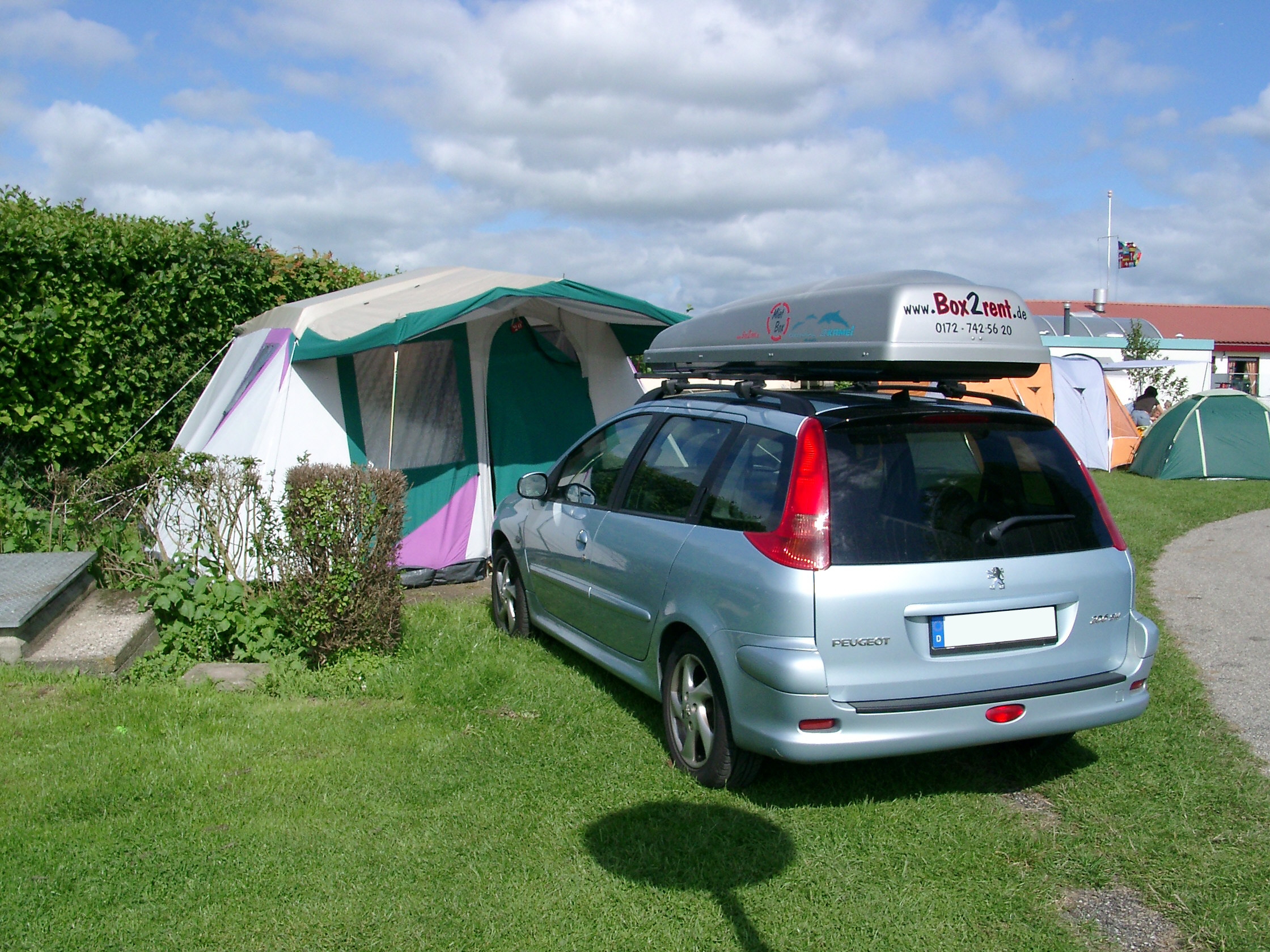 Peugeot 206SW, in the year 2006